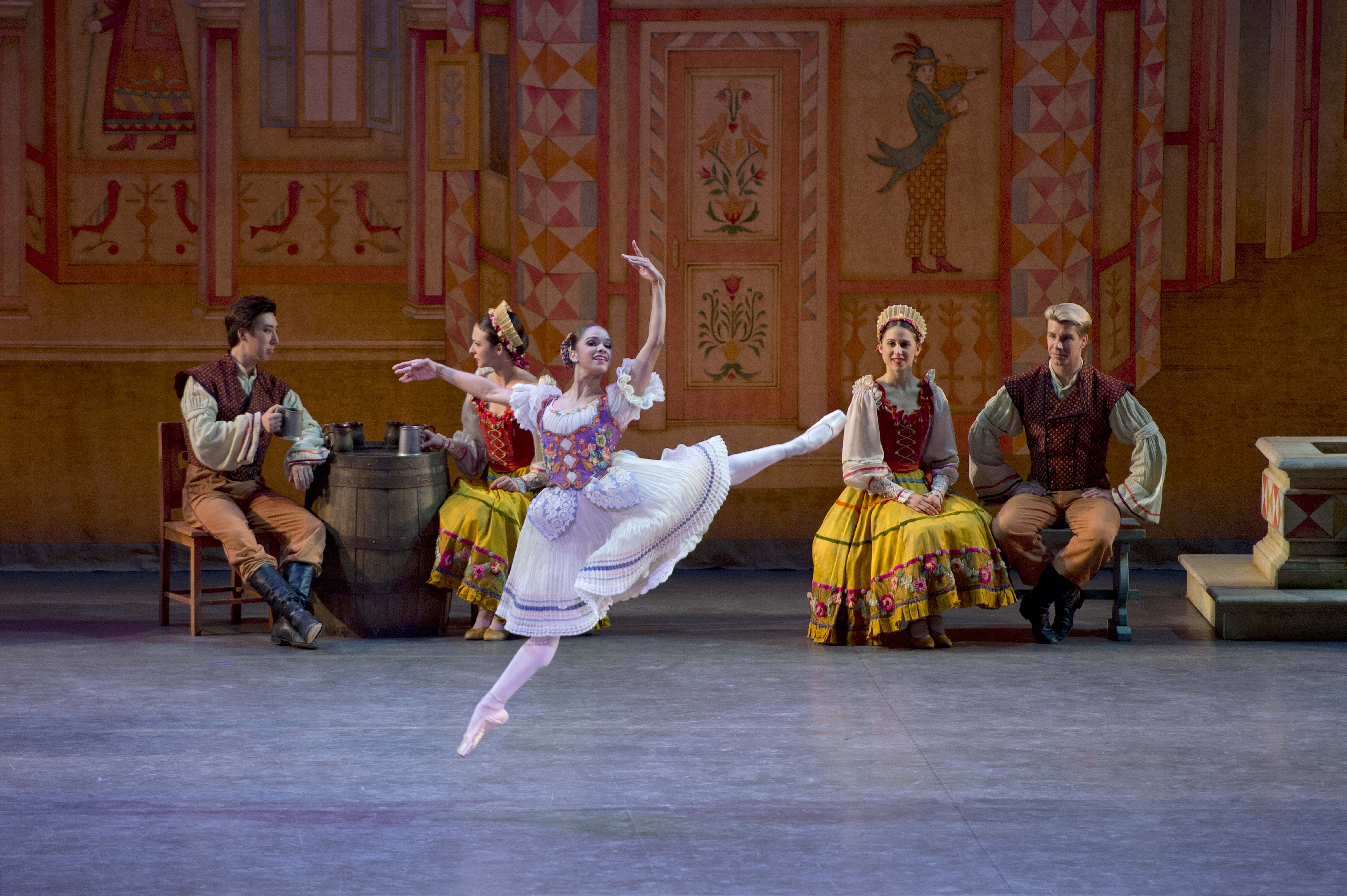 Photo Credit: Naim Chidiac Abu Dhabi Festival